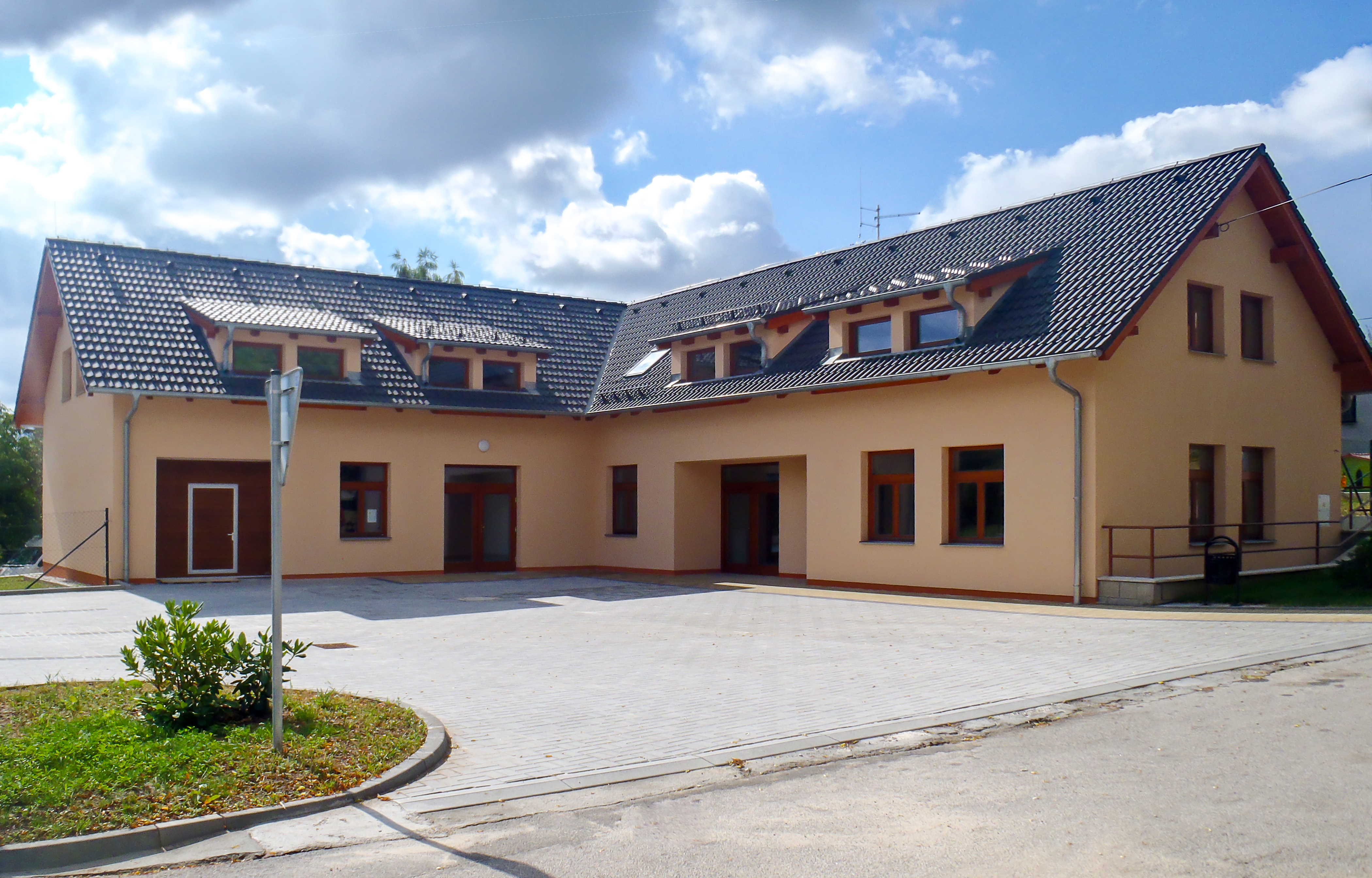 Hlincová Hora